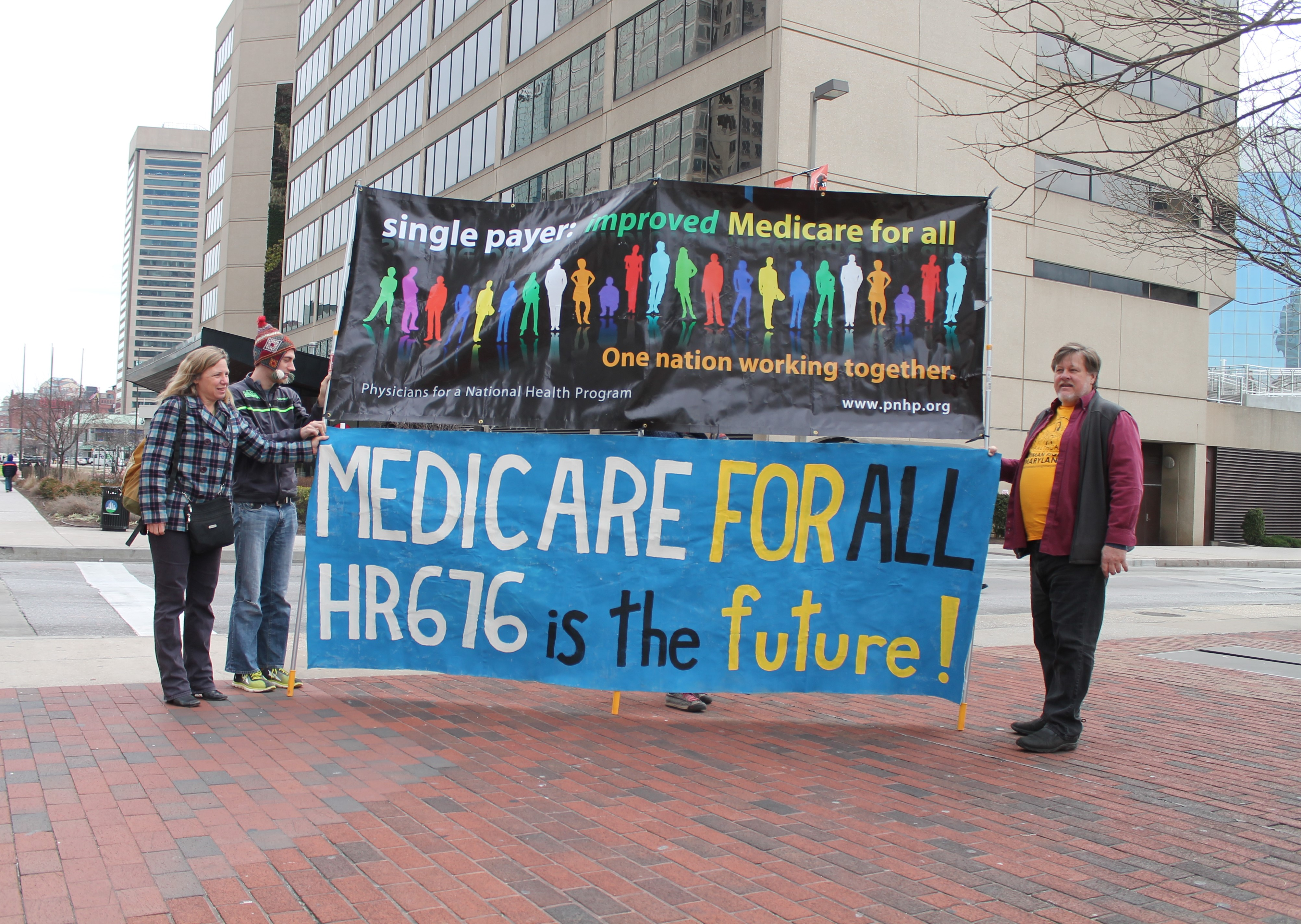 Demand SINGLE PAYER Expanded & Improved Medicare for All HR 676 Now Protest at the Baltimore Convention Center on Pratt at South Charles Street in Baltimore MD on Saturday morning, 11 February 2018 by Elvert Barnes Photography Follow Saturday, 11 February 2017 MEDICARE FOR ALL RALLY at Learn about the HR 676 Bill at Elvert Barnes Protest Photography